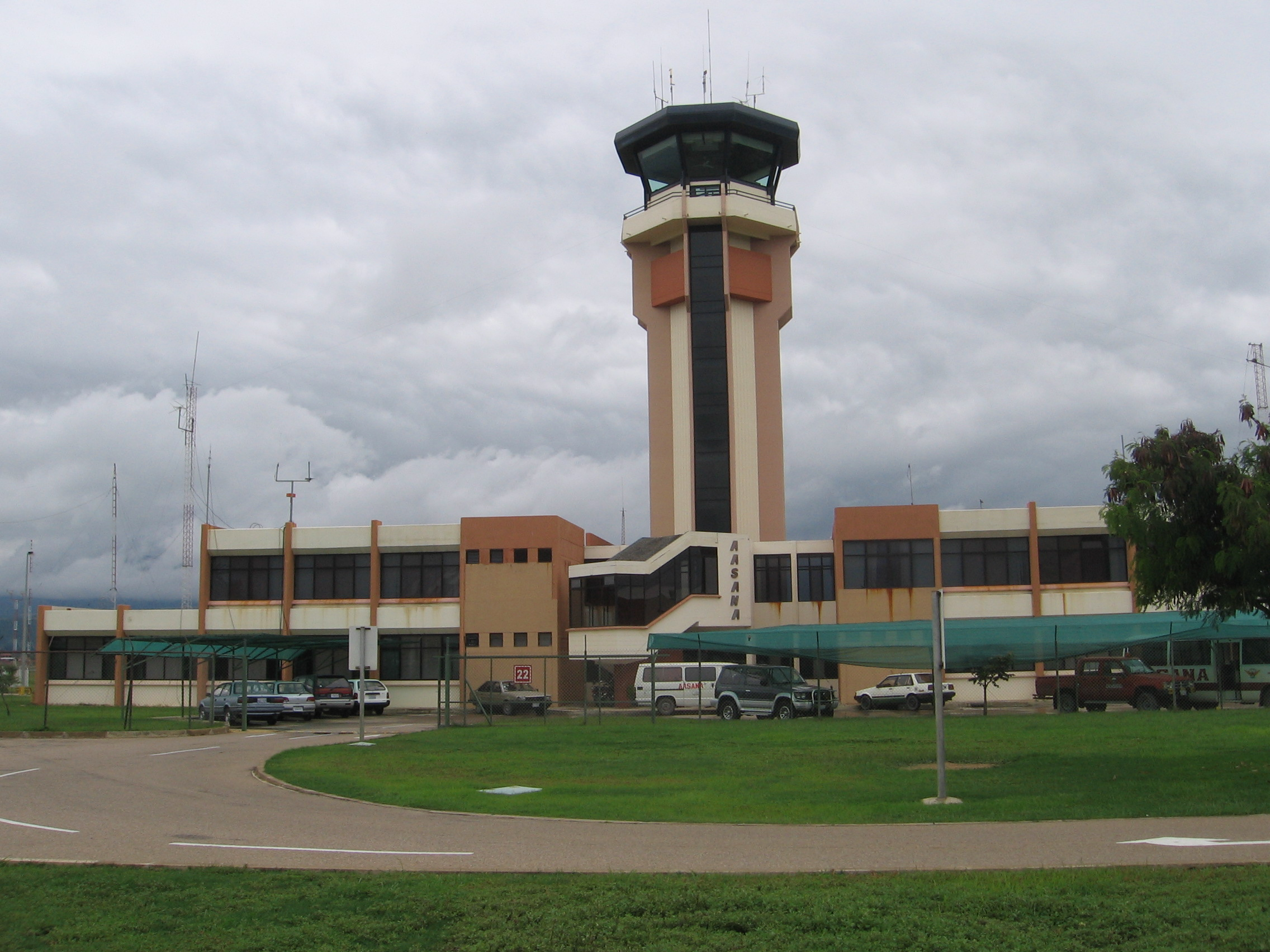 Tower of Cochabamba´s airport